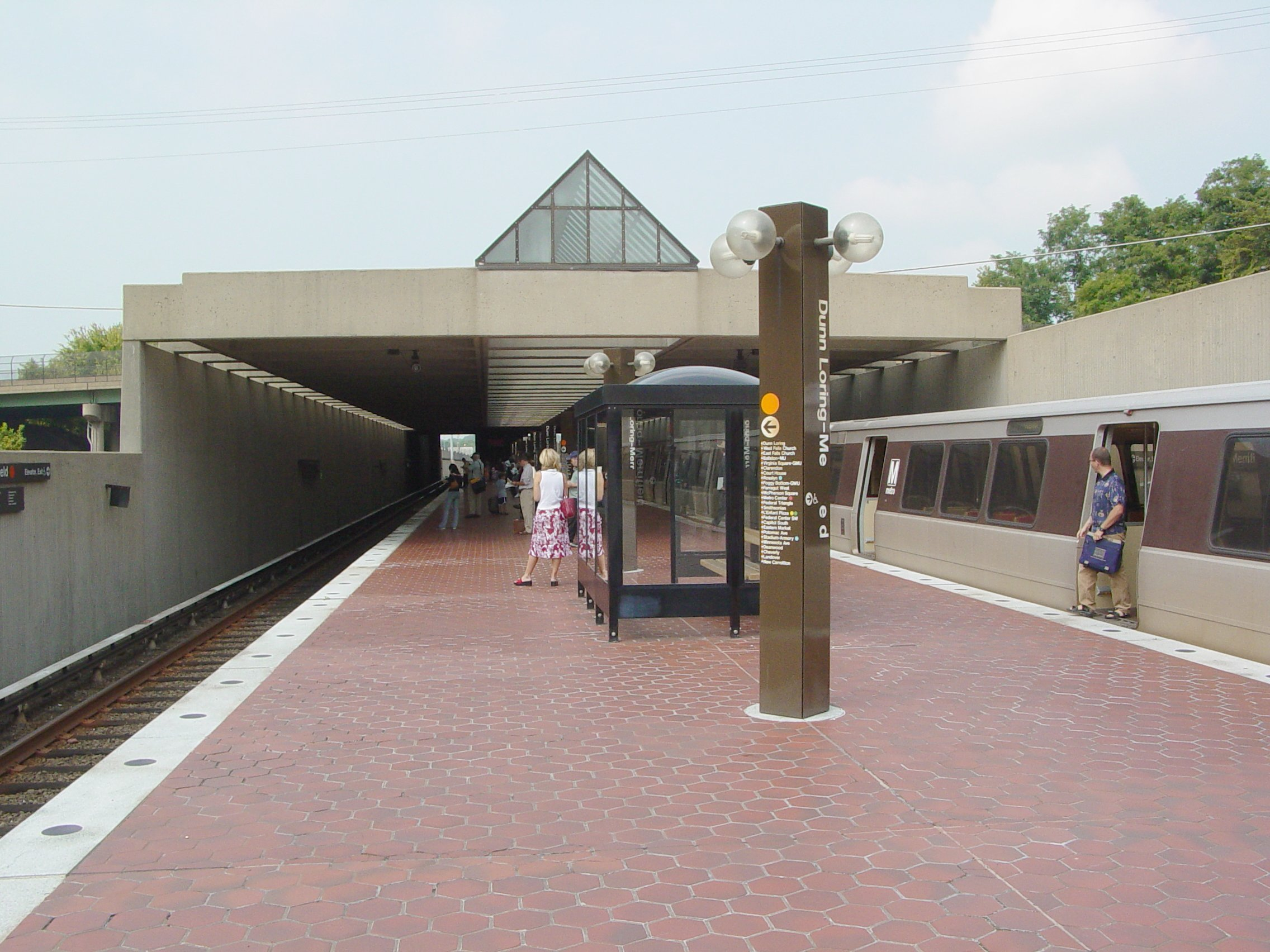 Dunn Loring-Merrifield